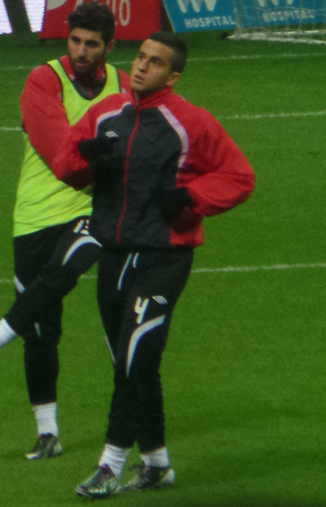 German-turkish Soccer player Muhammed Ali Doğan of Sanica Boru Elazığspor